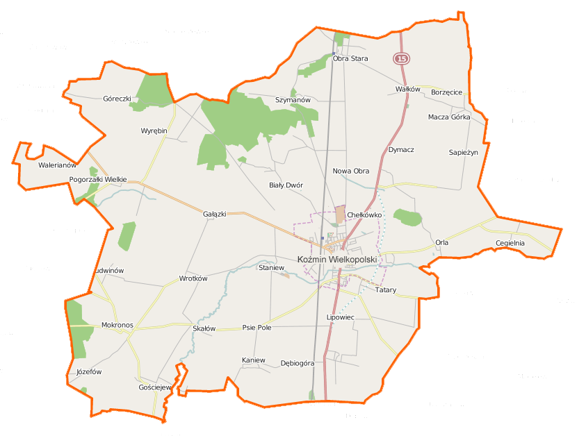 Map of Gmina Koźmin Wielkopolski, Poland This map of Koźmin Wielkopolski (gmina) was created from OpenStreetMap project data, collected by the community. This map may be incomplete, and may contain errors. Don't rely solely on it for navigation. Border coordinates51.904917.2849←↕→17.569851.7715